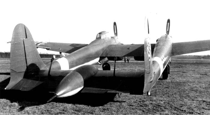 Savoia-Marchetti SM.92 rear view.